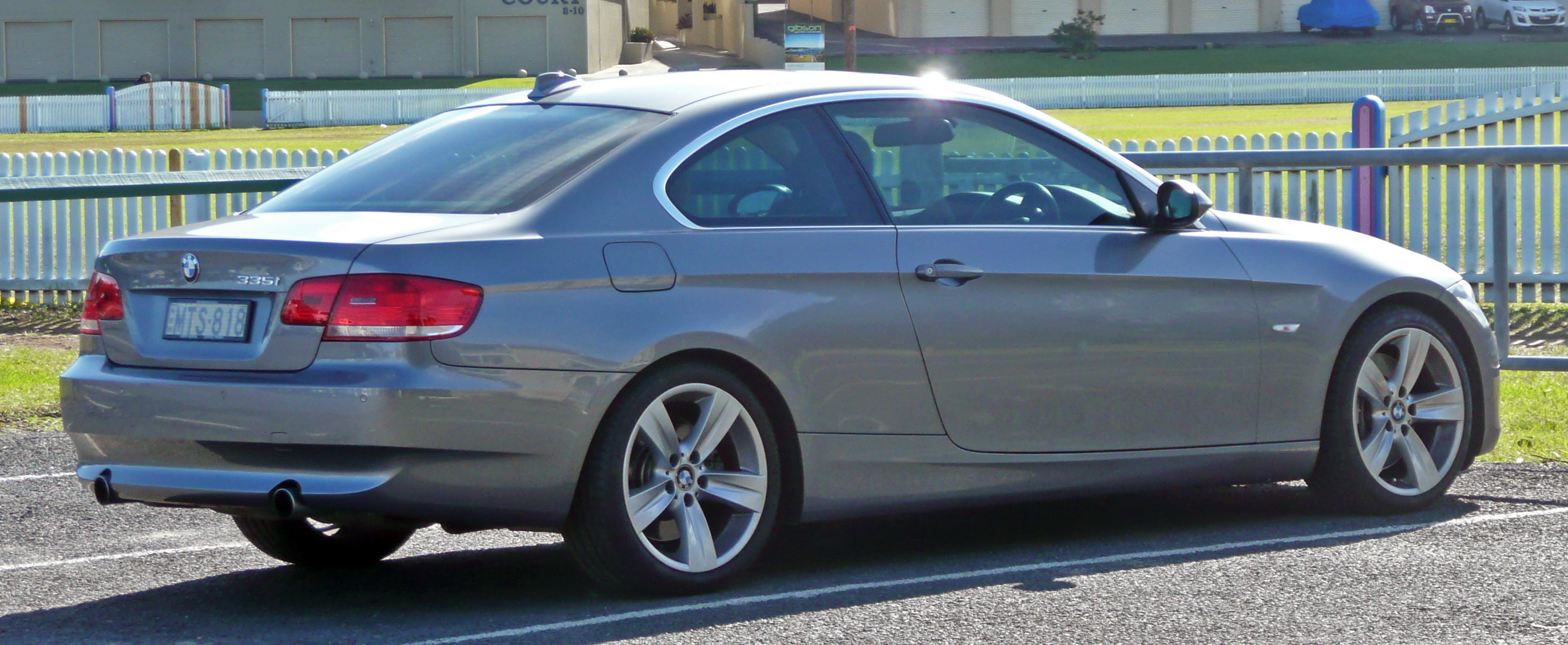 2006–2010 BMW 335i (E92) coupe. Photographed in Cronulla, New South Wales, Australia.